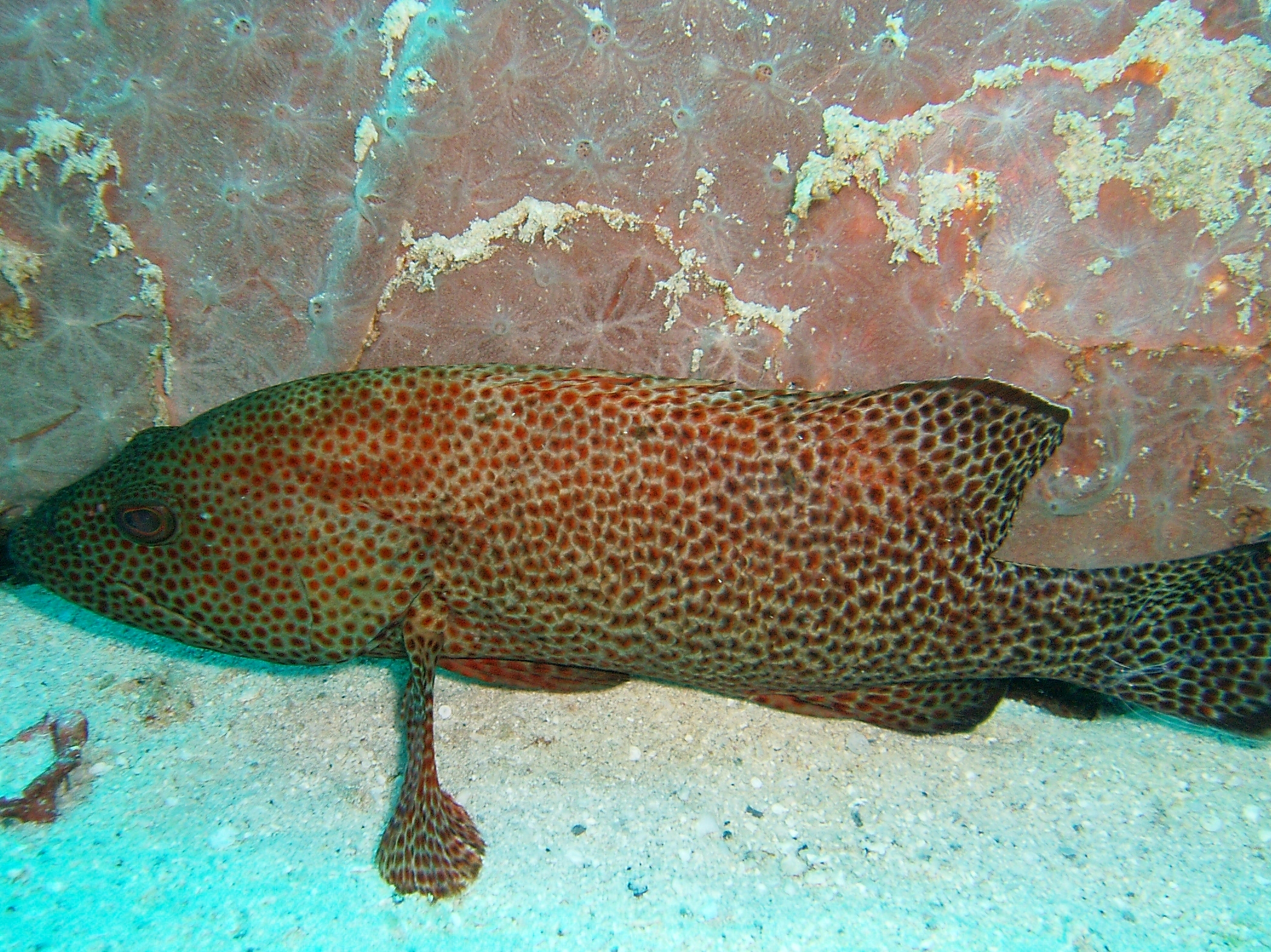 A Graysby (Cephalopholis cruentatus or Cephalopholis cruentata) Image ID: reef1083, NOAA's Coral Kingdom Collection Location: Coki Beach, St. Thomas, USVI